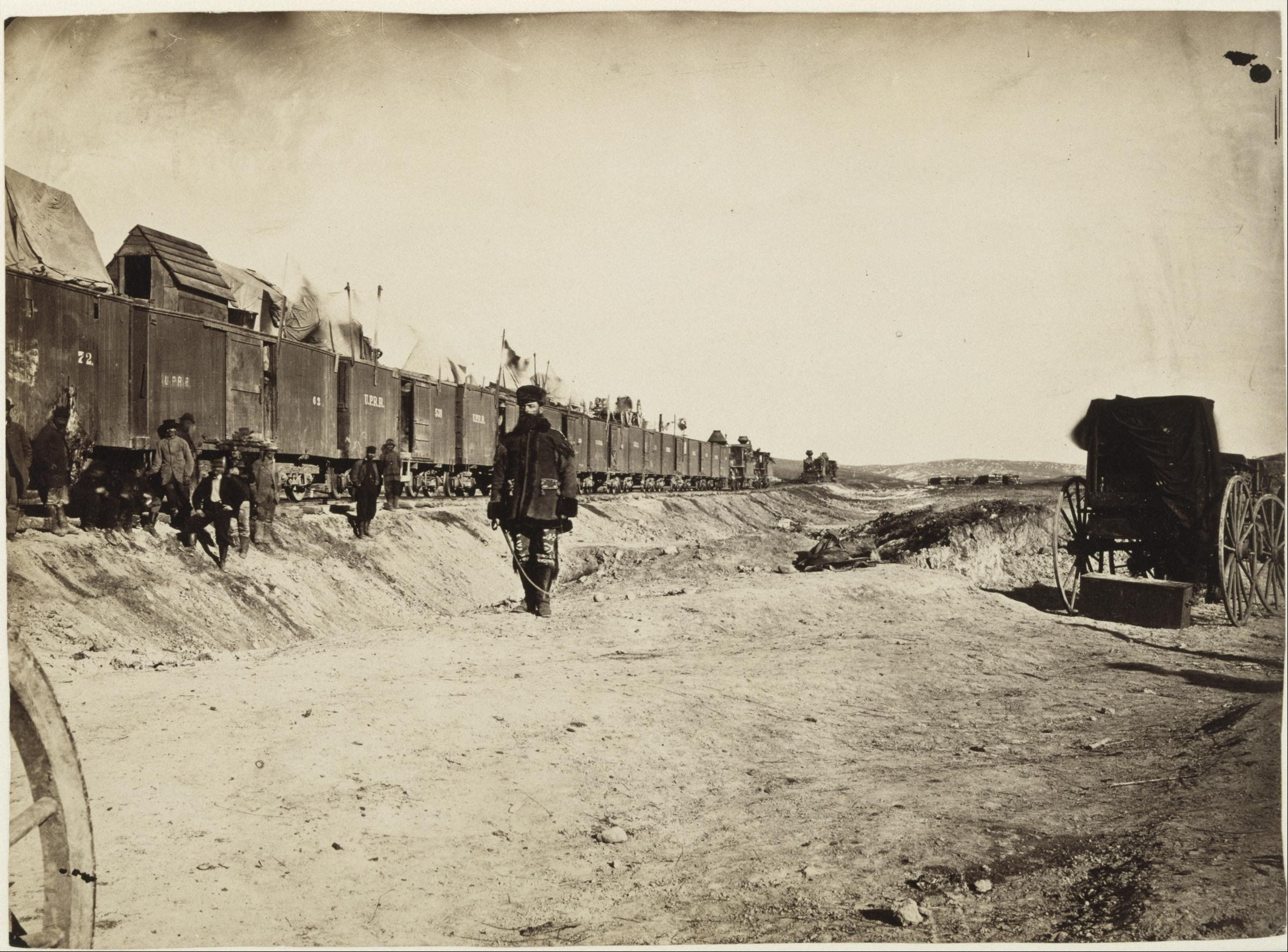 View of Casement supervising construction of the Union Pacific Railroad